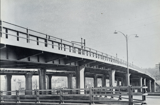 A photo of the eastbound span of the Benning Road Viaduct taken in 1956. The bridge was built in 1919 for two-way traffic, but later served only eastbound traffic. Was torn down in 1961